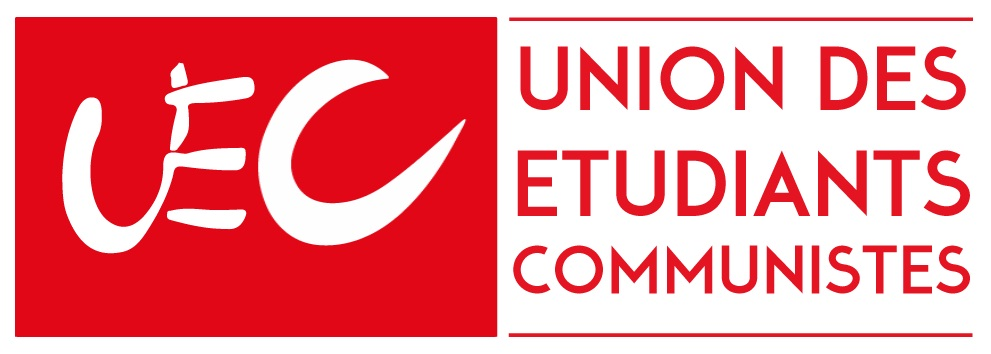 Official logo of the Union of Communist Students